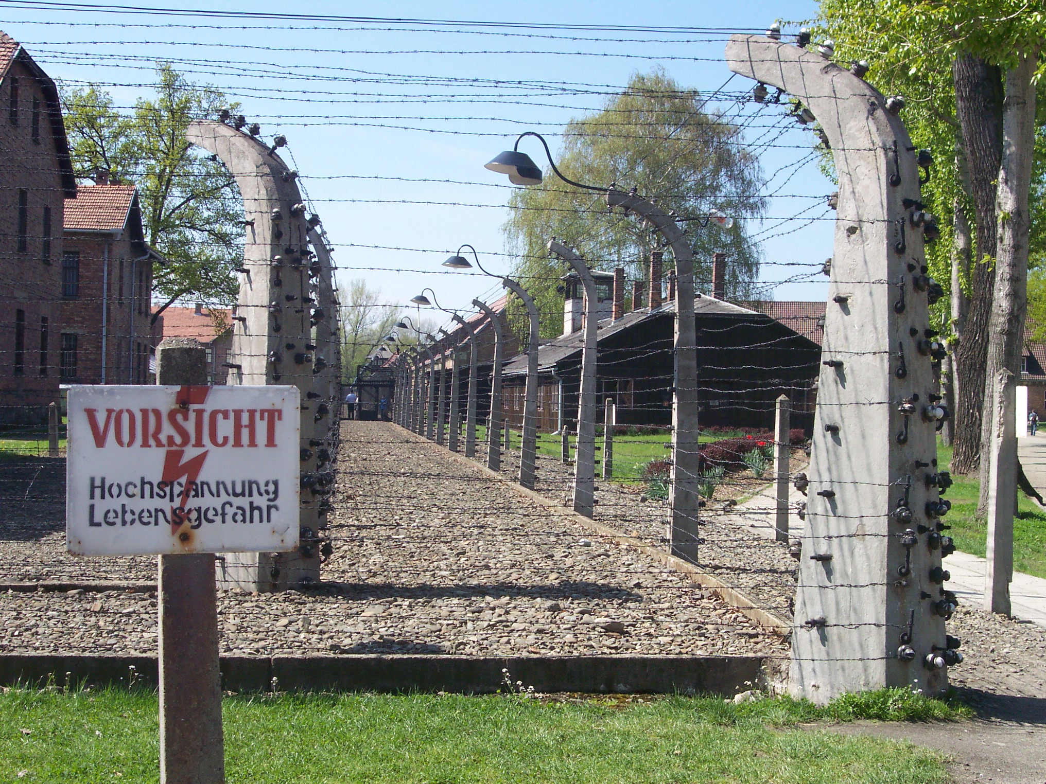 Concentration camp Auschwitz I